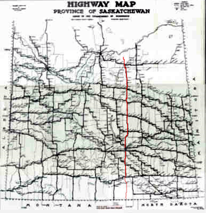 1926 version of Saskatchewan Highway 6